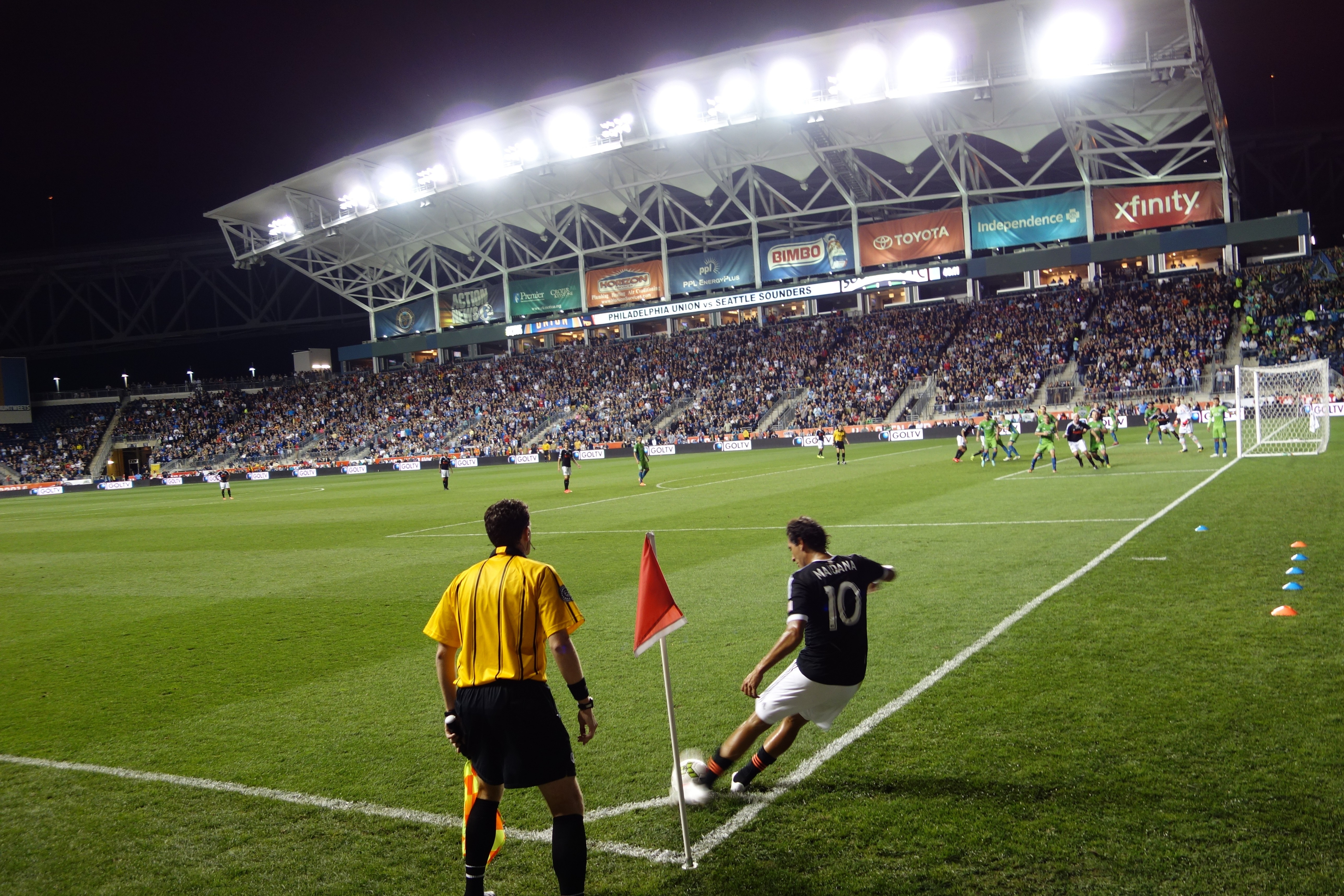 Tuesday, 16 September 2014 Lamar Hunt U.S. Open Cup Final Philadelphia Union 1 (Edu 38') Seattle Sounders 3 (Barrett 47', Dempsey 101', Martins 114') Attendance: 15,256